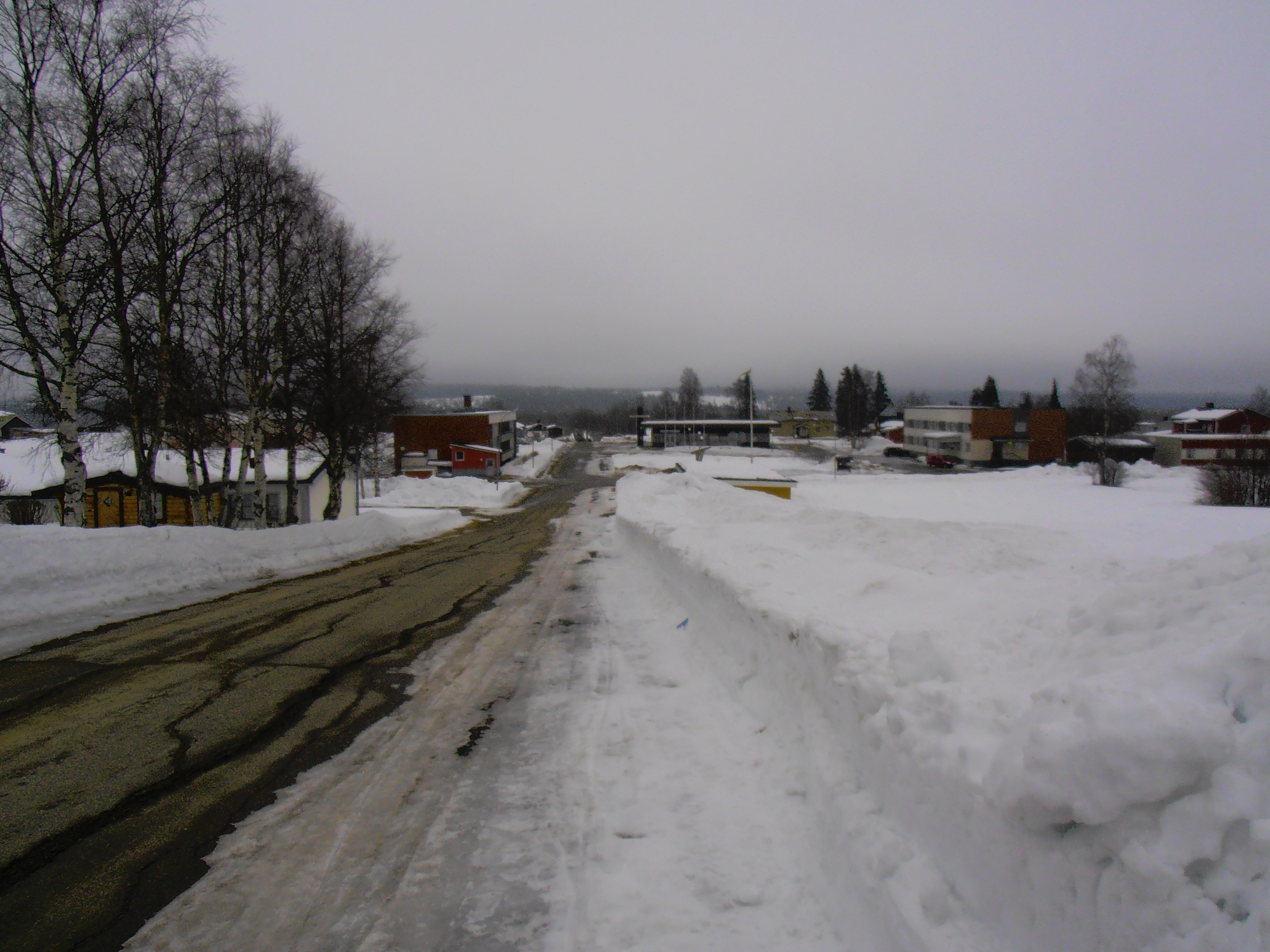 View of Korpilombolo's square